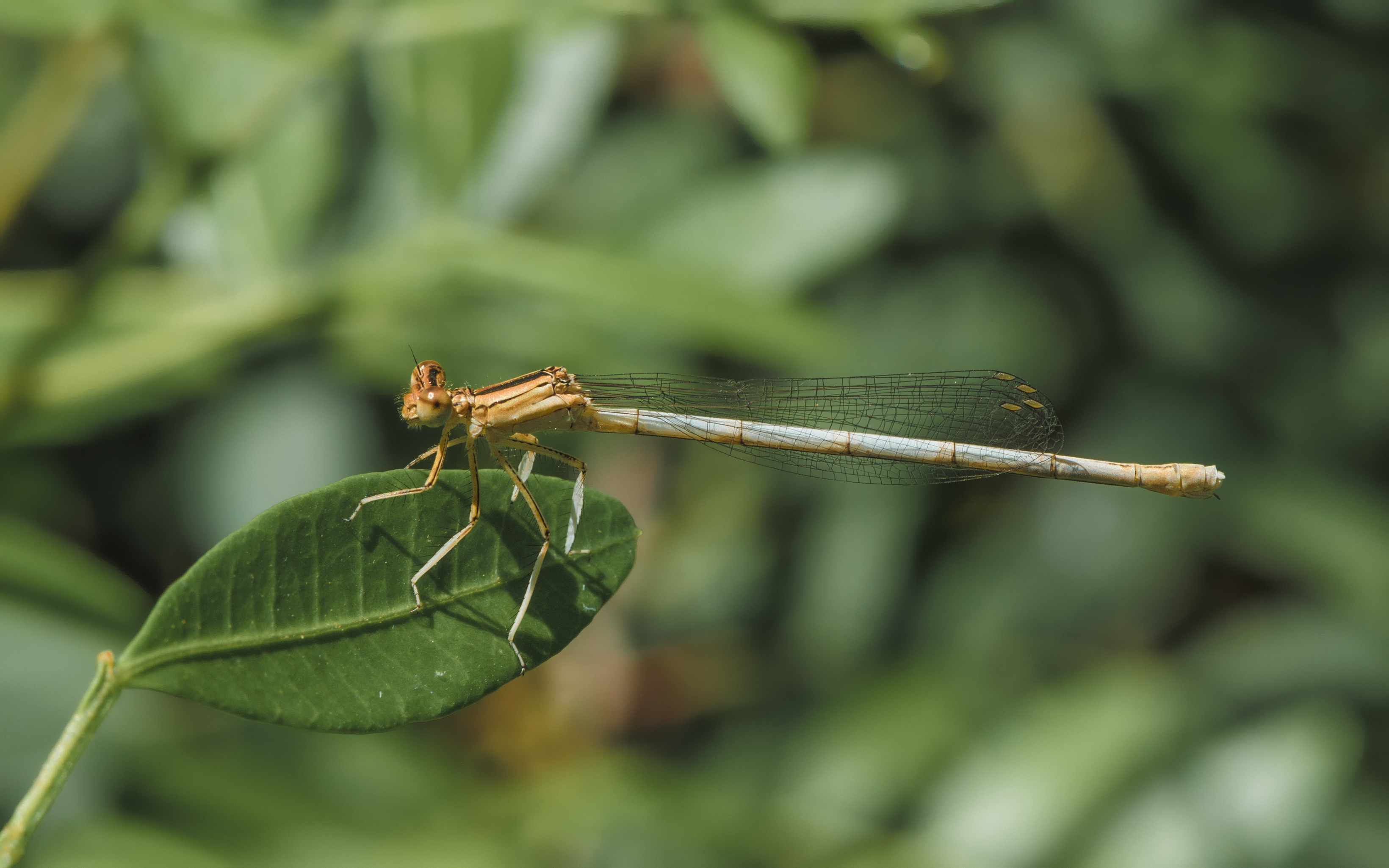 Platycnemis latipes (White Featherleg), female.